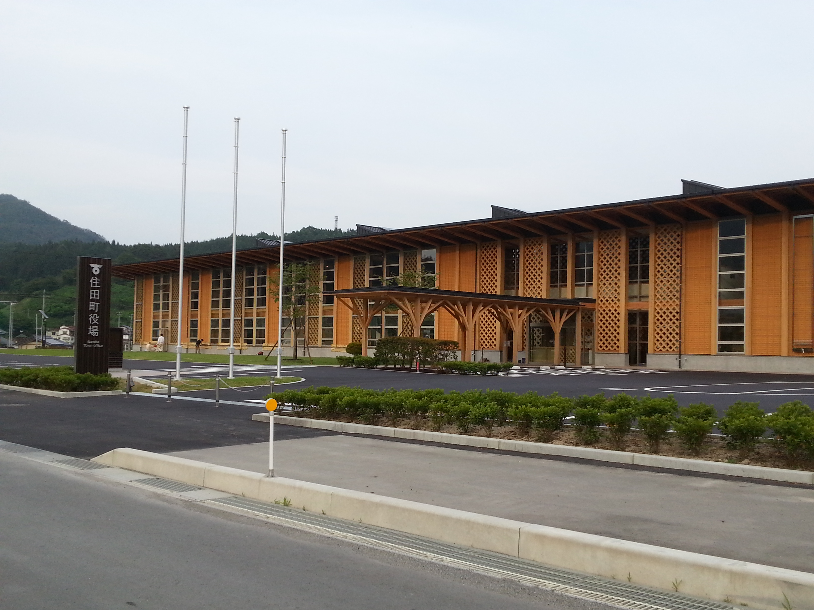 Sumita-cho, Iwate Prefecture, Japan - new town hall building (opened September, 2014)